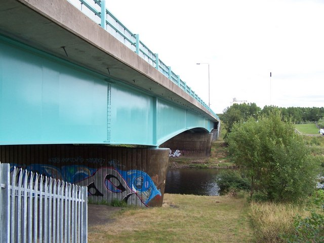 Bogleshole Road Bridge. Spans the River Clyde